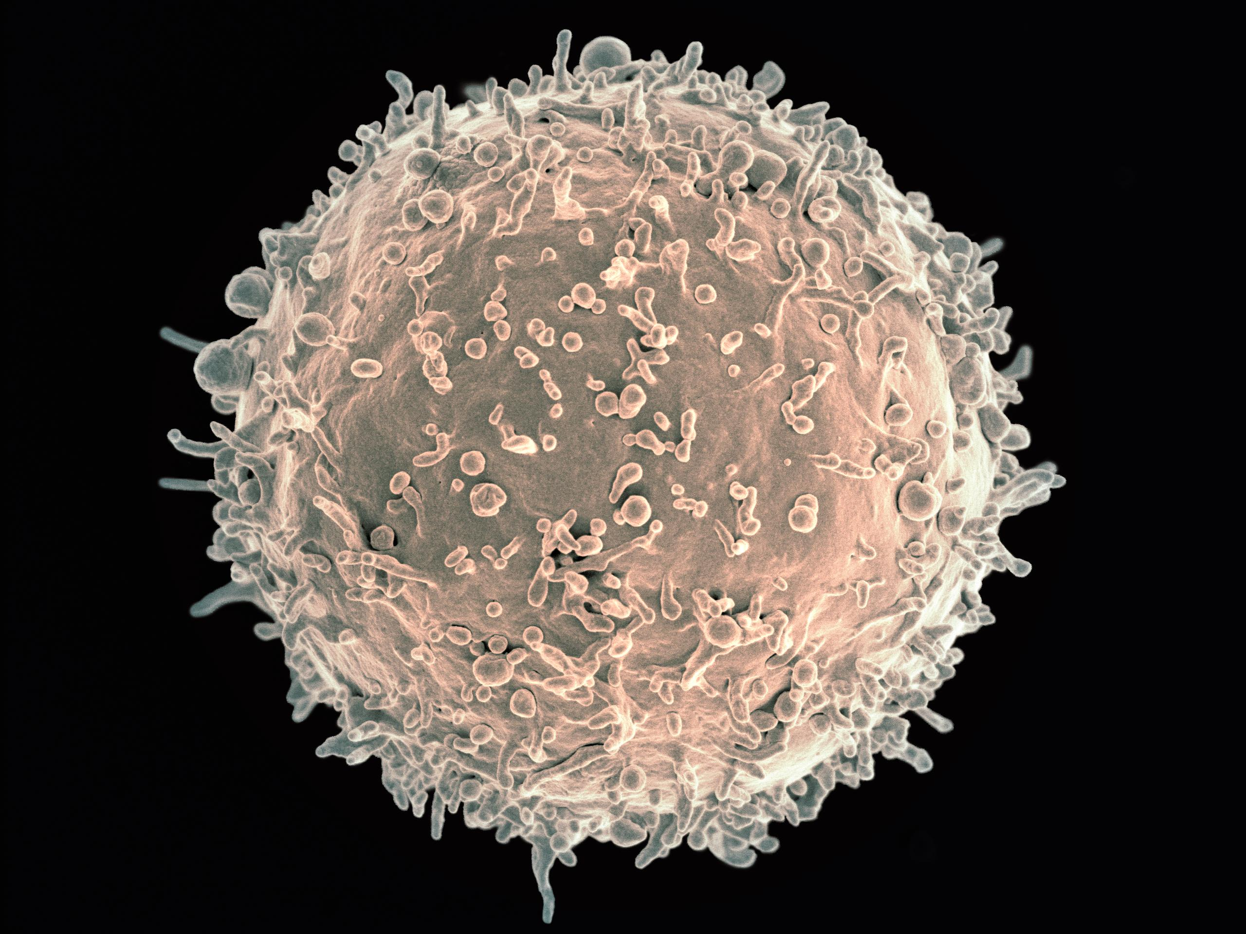 Colorized scanning electron micrograph of a B cell from a human donor. Credit: NIAID